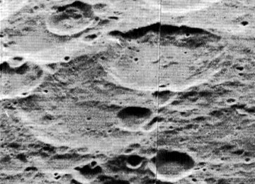 Oblique view of Esnault-Pelterie (upper right) and Schlesinger (lower left) craters, on the far side of the moon, facing west.